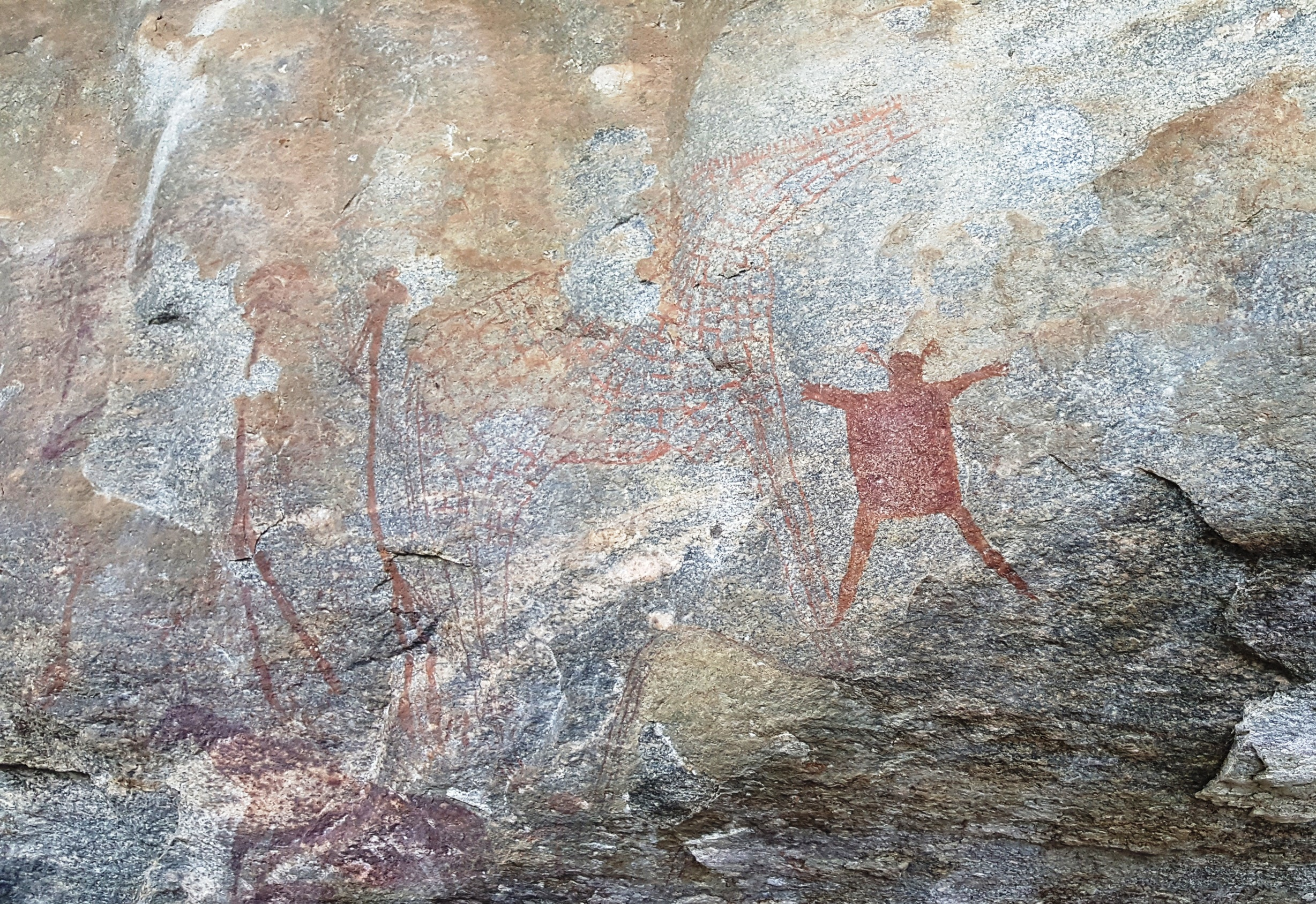 Kondoa_Irangi_Rock_Art